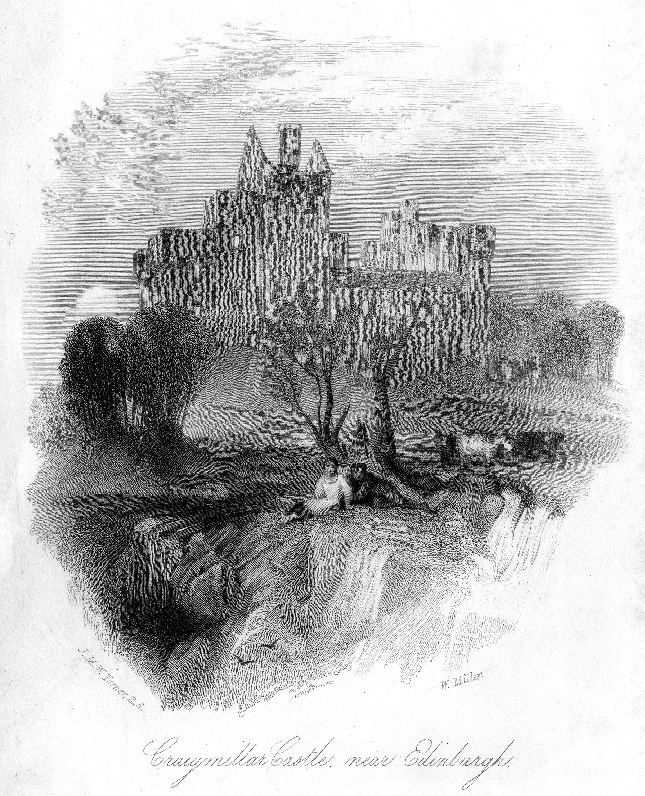 Craigmillar Castle (Rawlinson 546) engraving by William Miller after Turner, published in The Miscellaneous Prose Works of Sir Walter Scott, Bart. Embellished with Portraits, Frontispieces, Vignette Titles and Maps. The Designs of the Landscapes from Real Scenes by J.M.W. Turner, R.A.. Edinburgh: Robert Cadell, Edinburgh; Whitaker, Arnot, and Company, London; John Cumming, Dublin 1834 - 1836